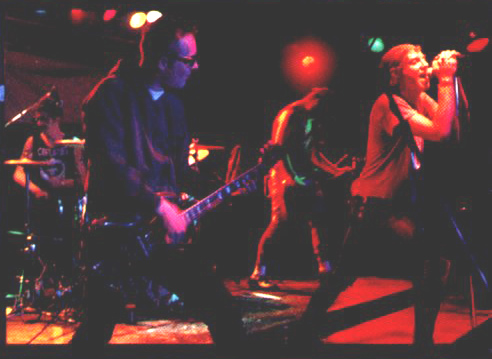 Zipgun